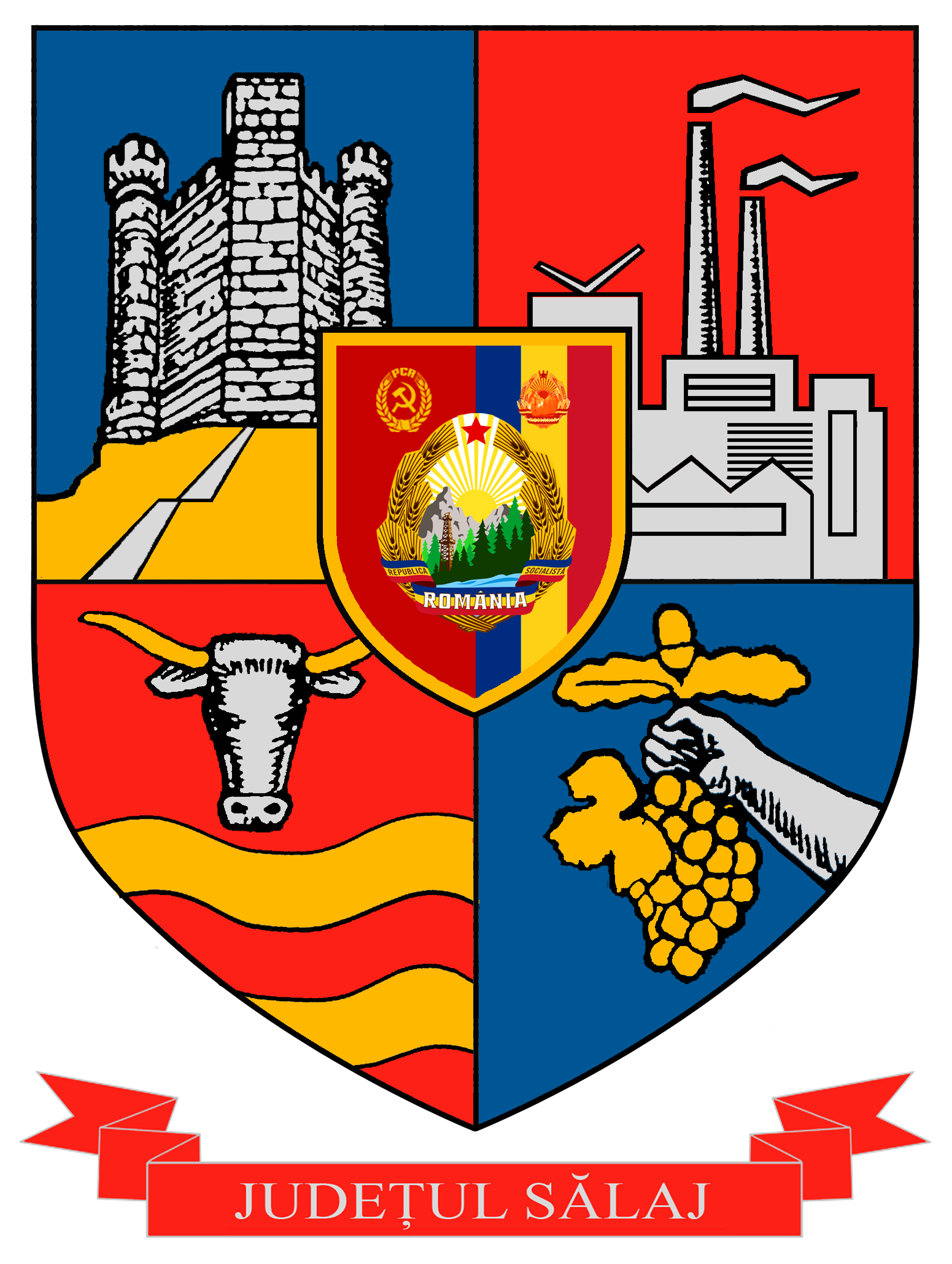 Communist coat of arms of Sălaj County, Socialist Republic of Romania.